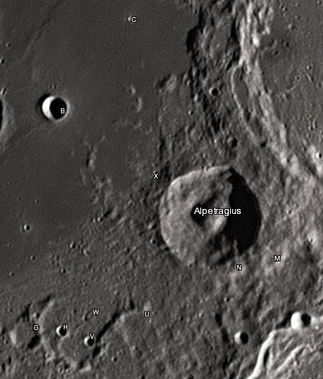 Alpetragius lunar crater as seen from Earth with satellite craters labeled